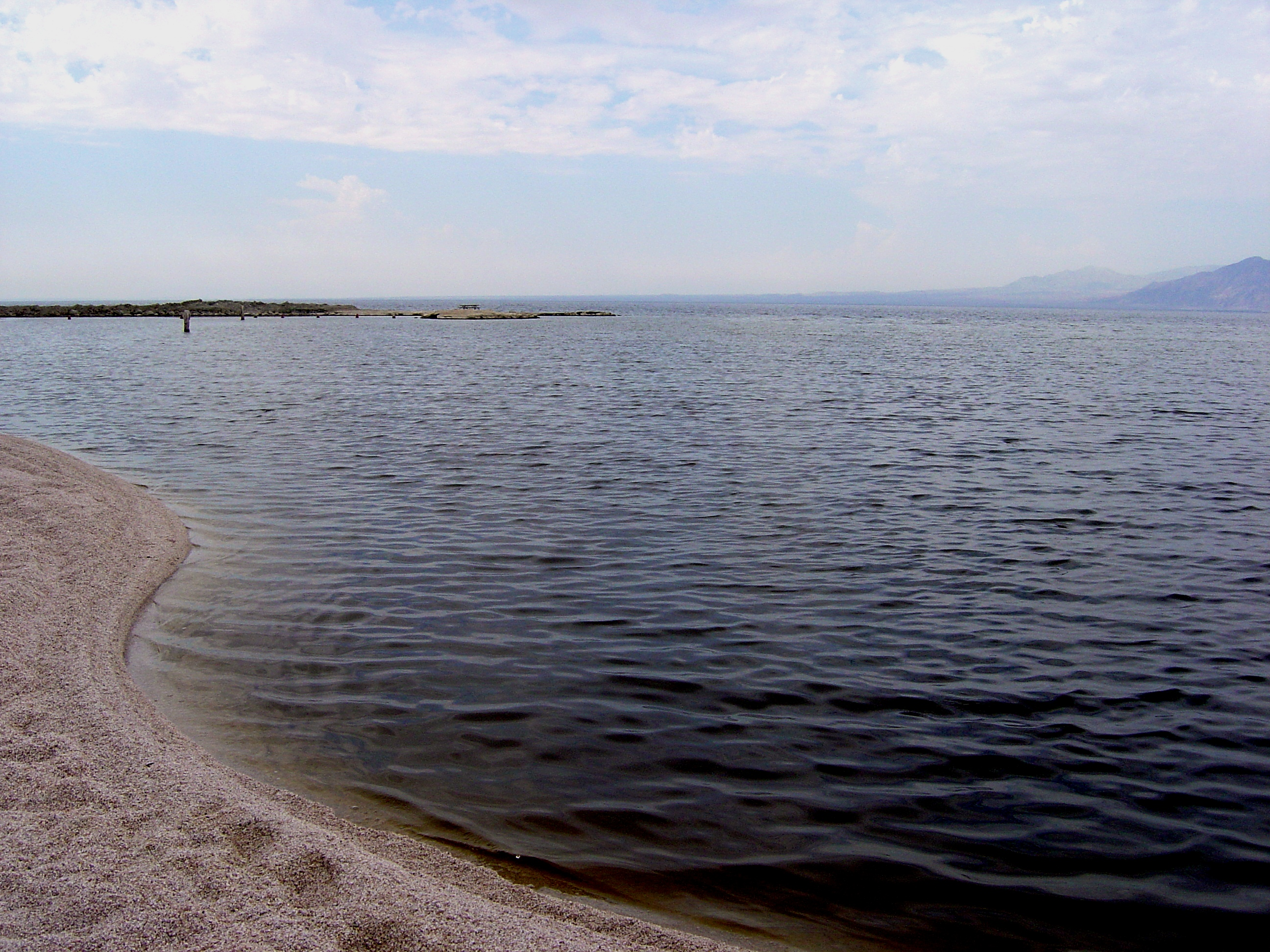 Salton Sea